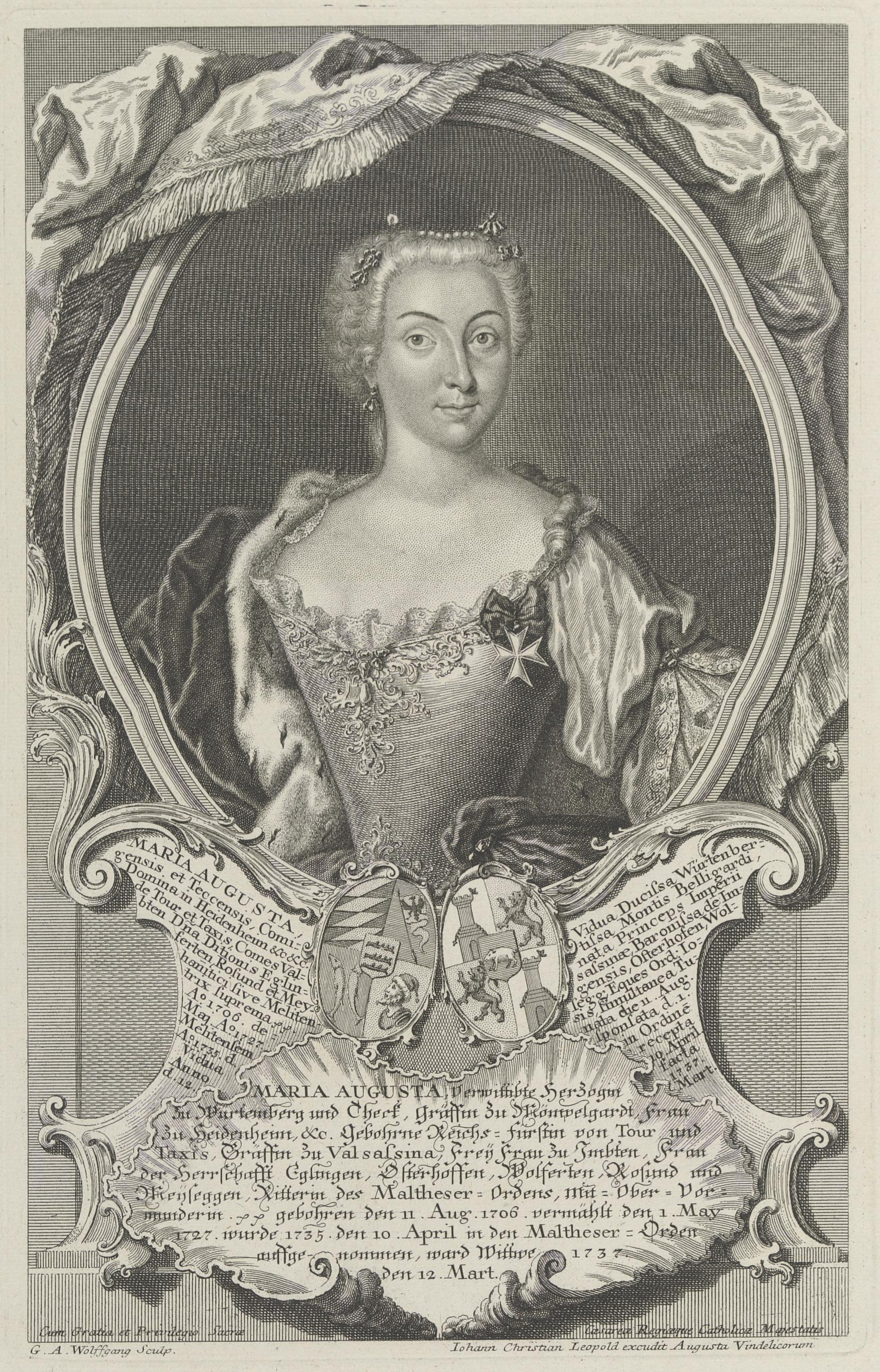 Princess Marie Auguste of Thurn and Taxis (1706-1756)